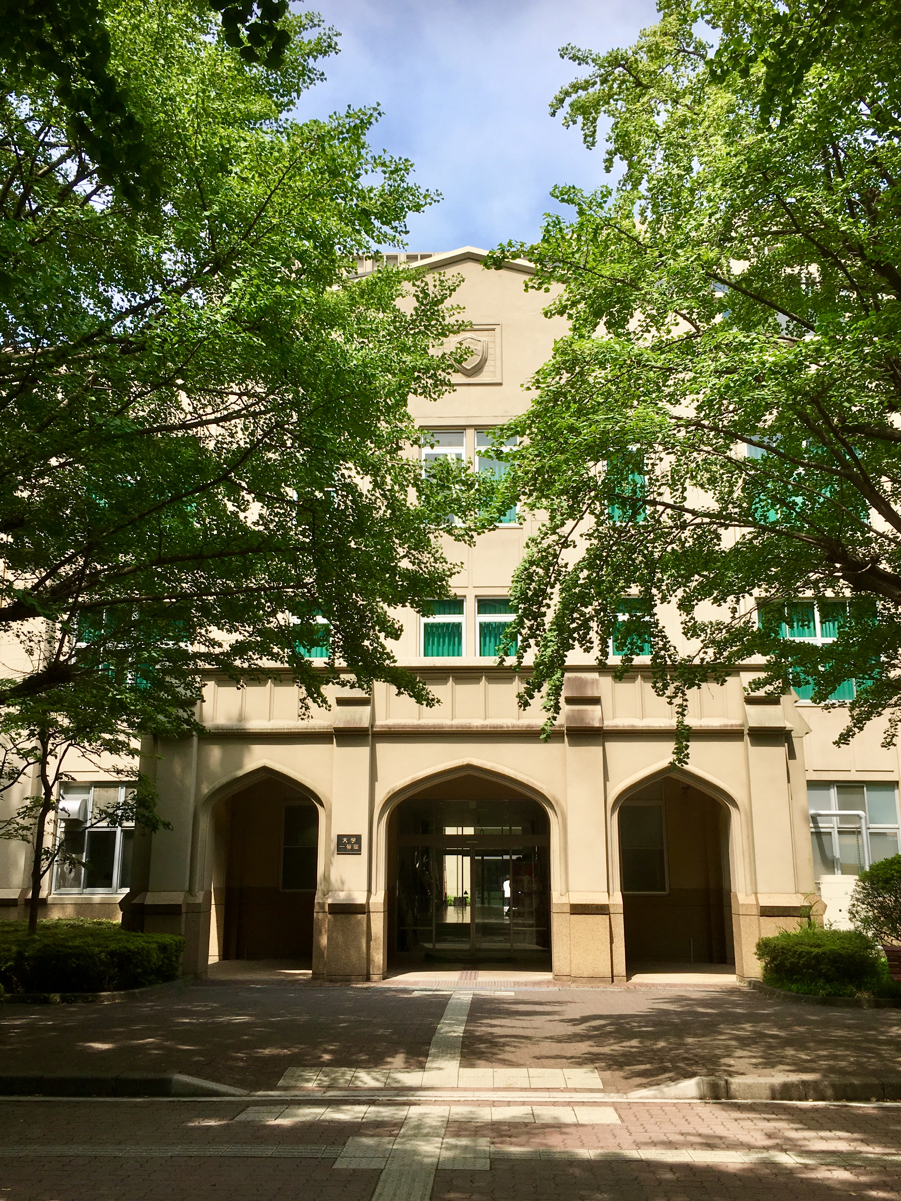 This is the Entrance of Aoyama Gakuin university's building 1.